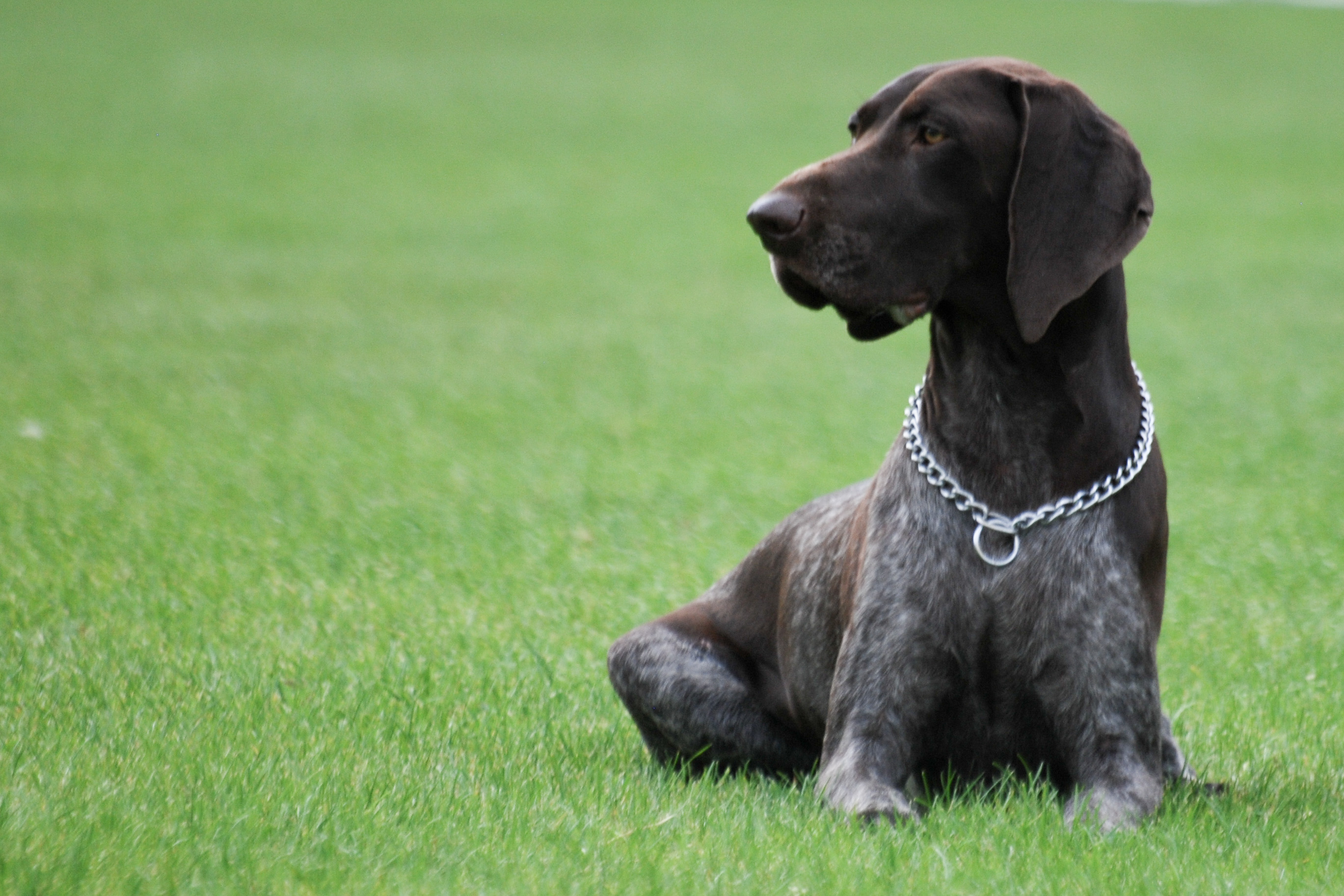 commons: Lilly M pl.wiki: Lilly M real name: Małgorzata Miłaszewska-Duda German Shorthaired Pointer